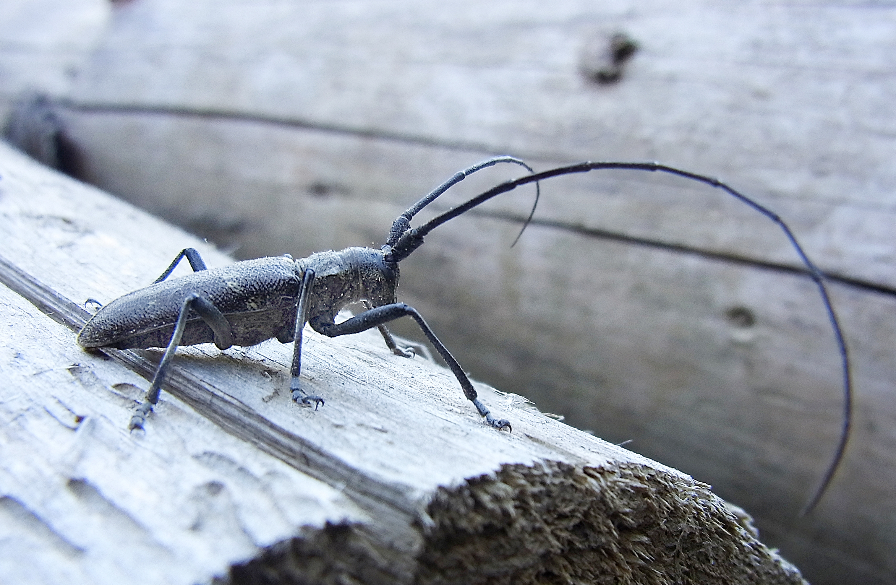 Monochamus sartor from Hungary, Bükk-mountains, at 2015-07-03